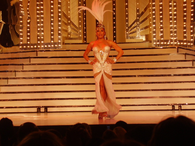 Florencia de la V, argentine actress